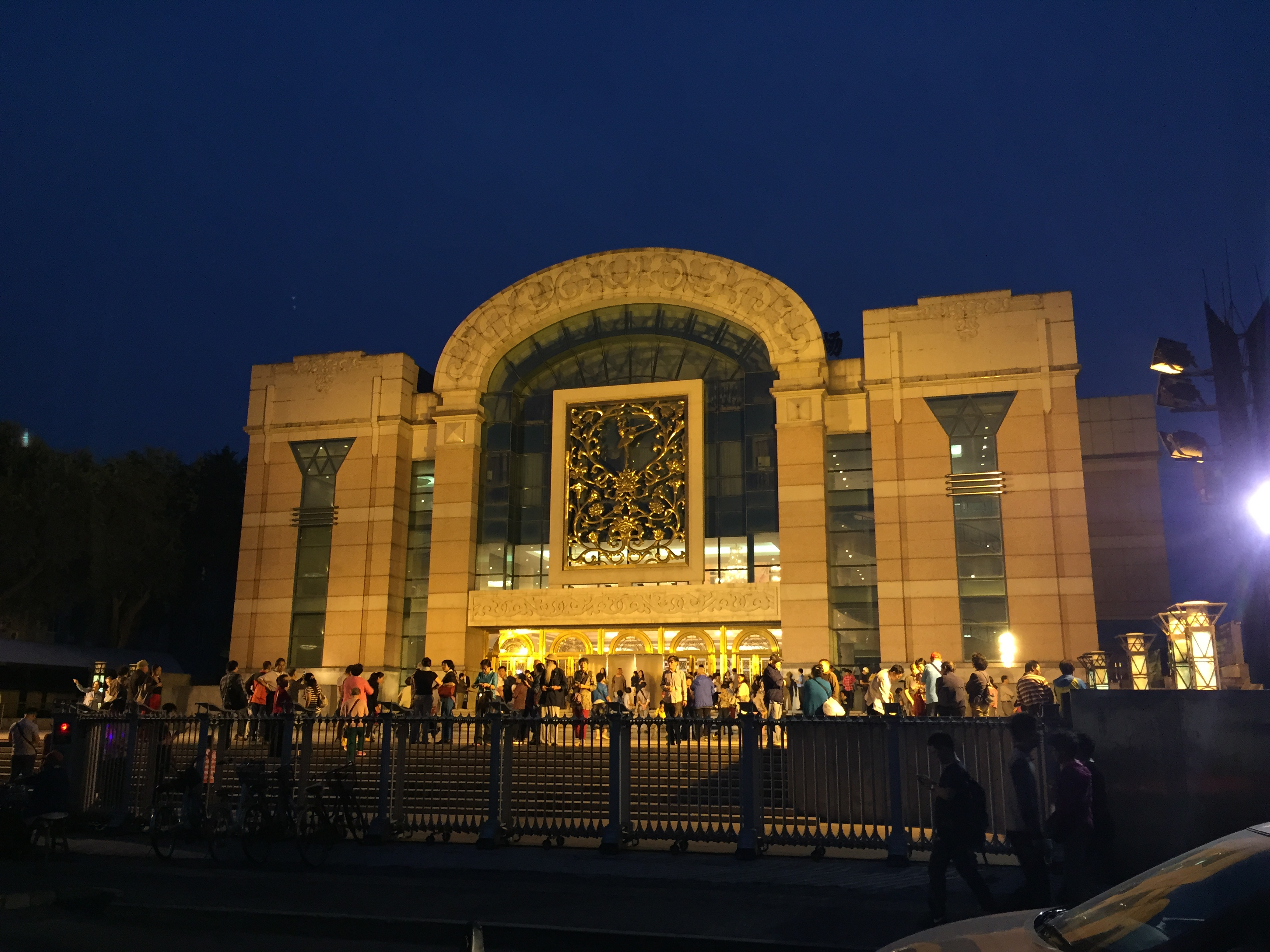 The home arena of Chinese Ballet Troupe.